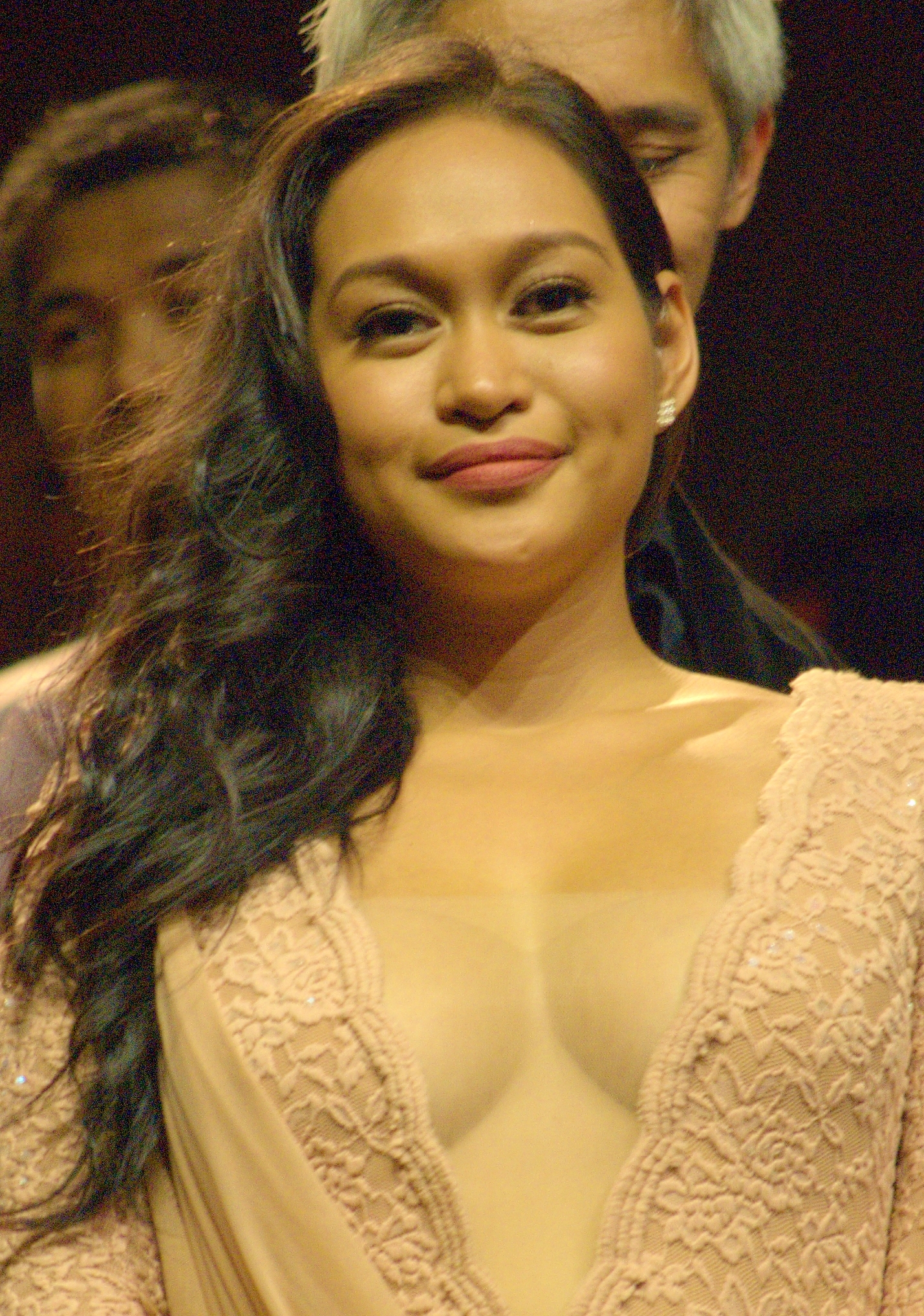 Mercedes Cabral attending the 69th Venice International Film Festival at Venice Lido on 6 September 2012.